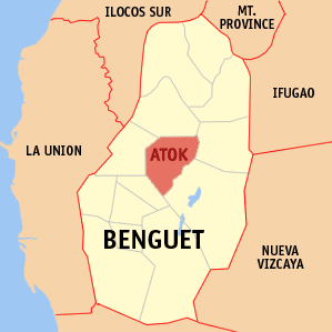 Map of Benguet showing the location of Atok